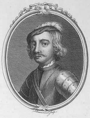 Portrait of Indulf mac Causantín (Indulf), King of Scotland (954–962), nicknamed "An Ionsaighthigh".